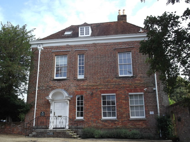 The Queen's House, Lyndhurst